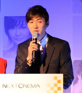 Danny Ahn at NCSoft & iHQ Debut on Next Cinema reception, in March 2011